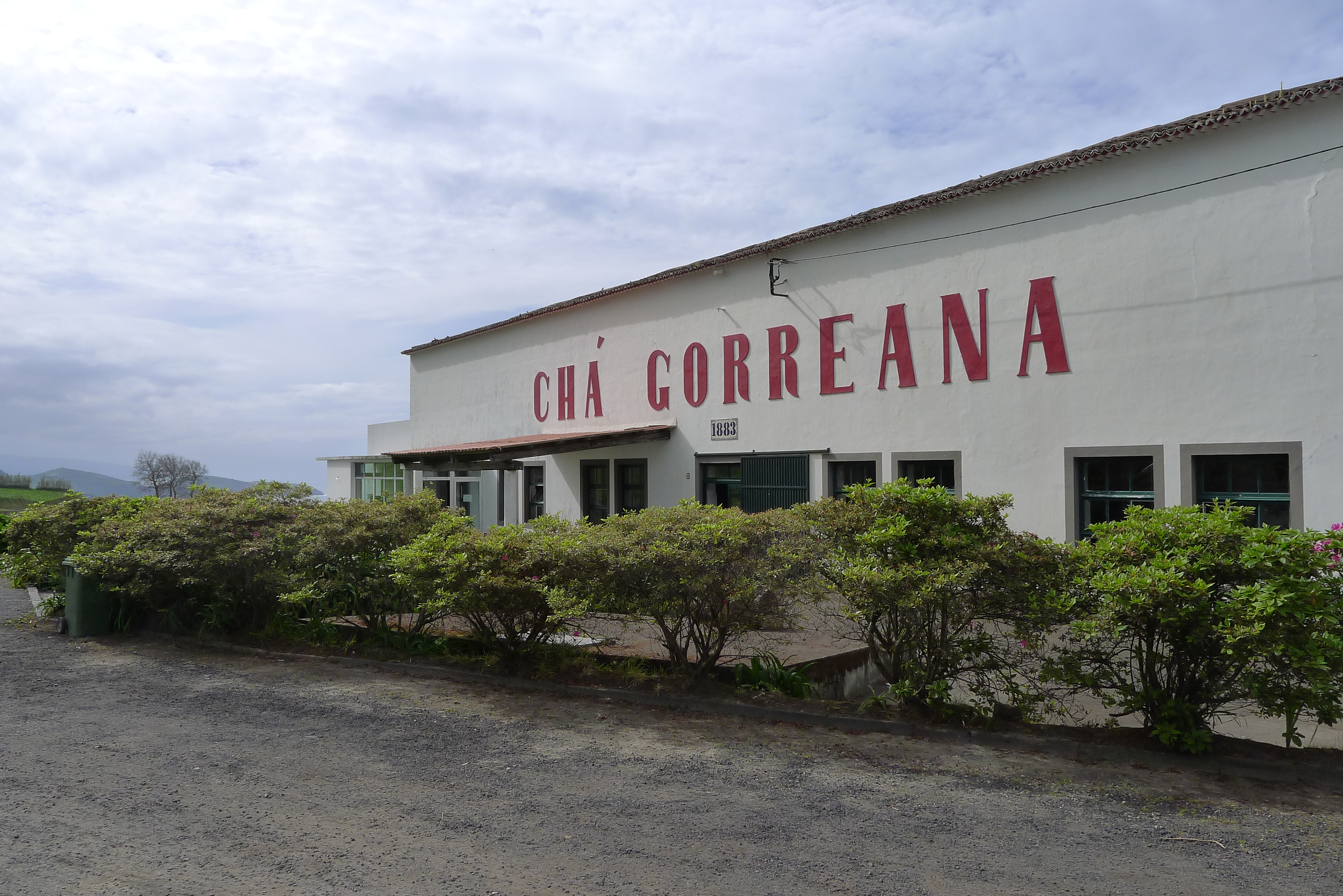 Chá Gorreana, Açores, Portugal (mai 2011)